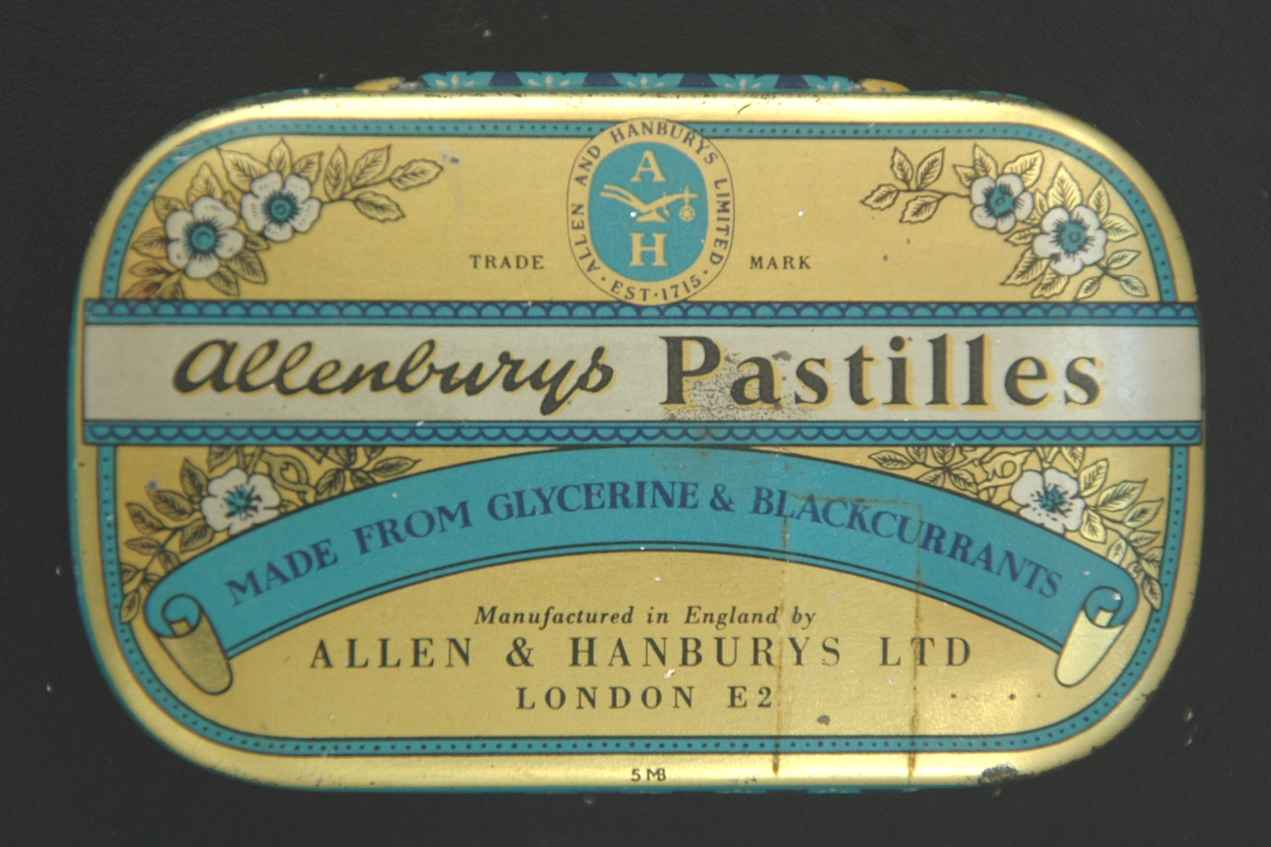 Metal box for Allen & Hanburys blackcurrant pastilles